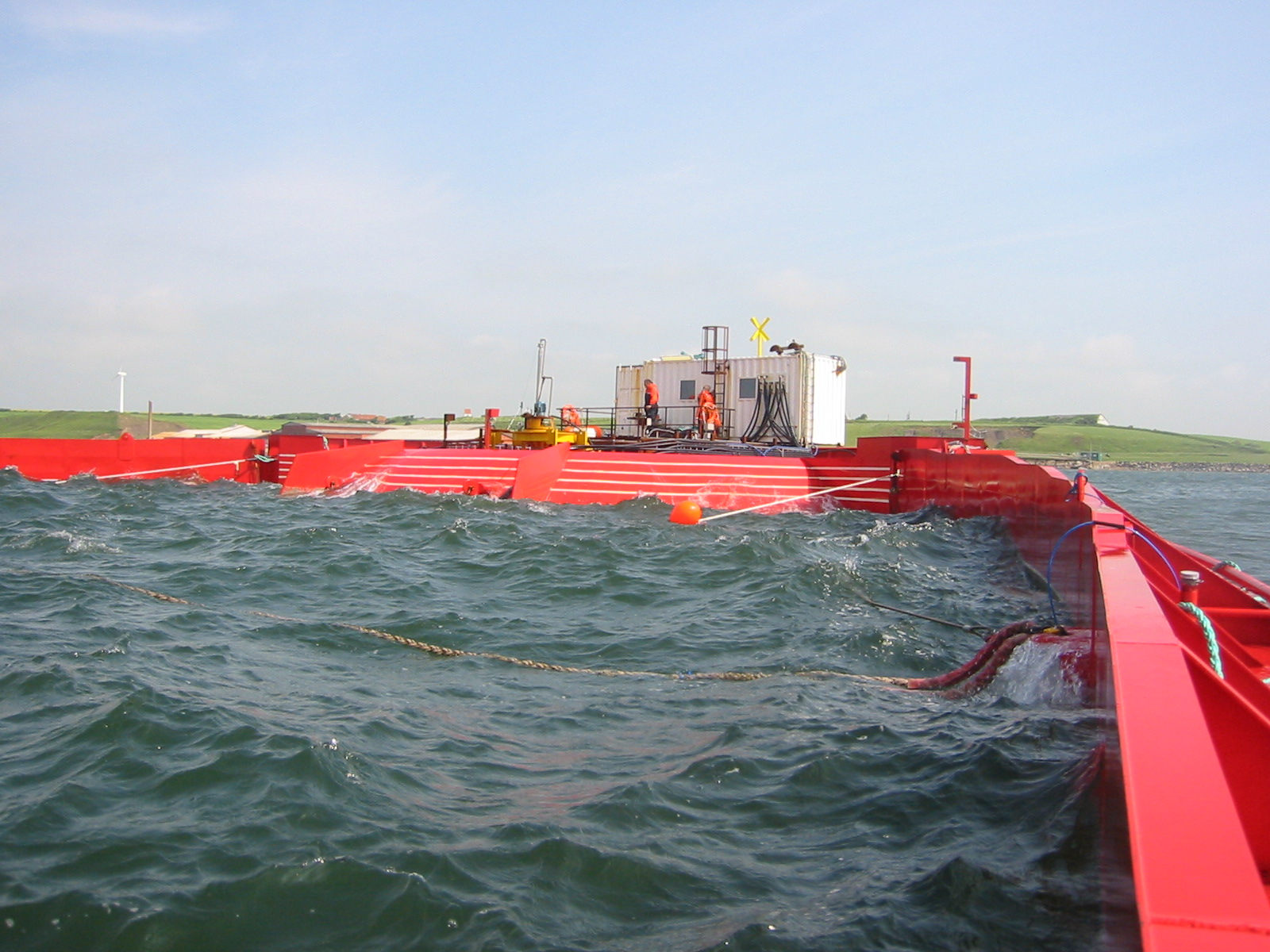 A Wave Dragon wave power facility.